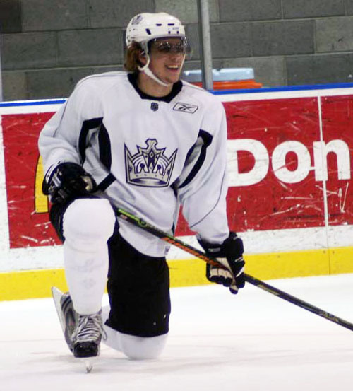 Slovenian ice hockey player Anže Kopitar